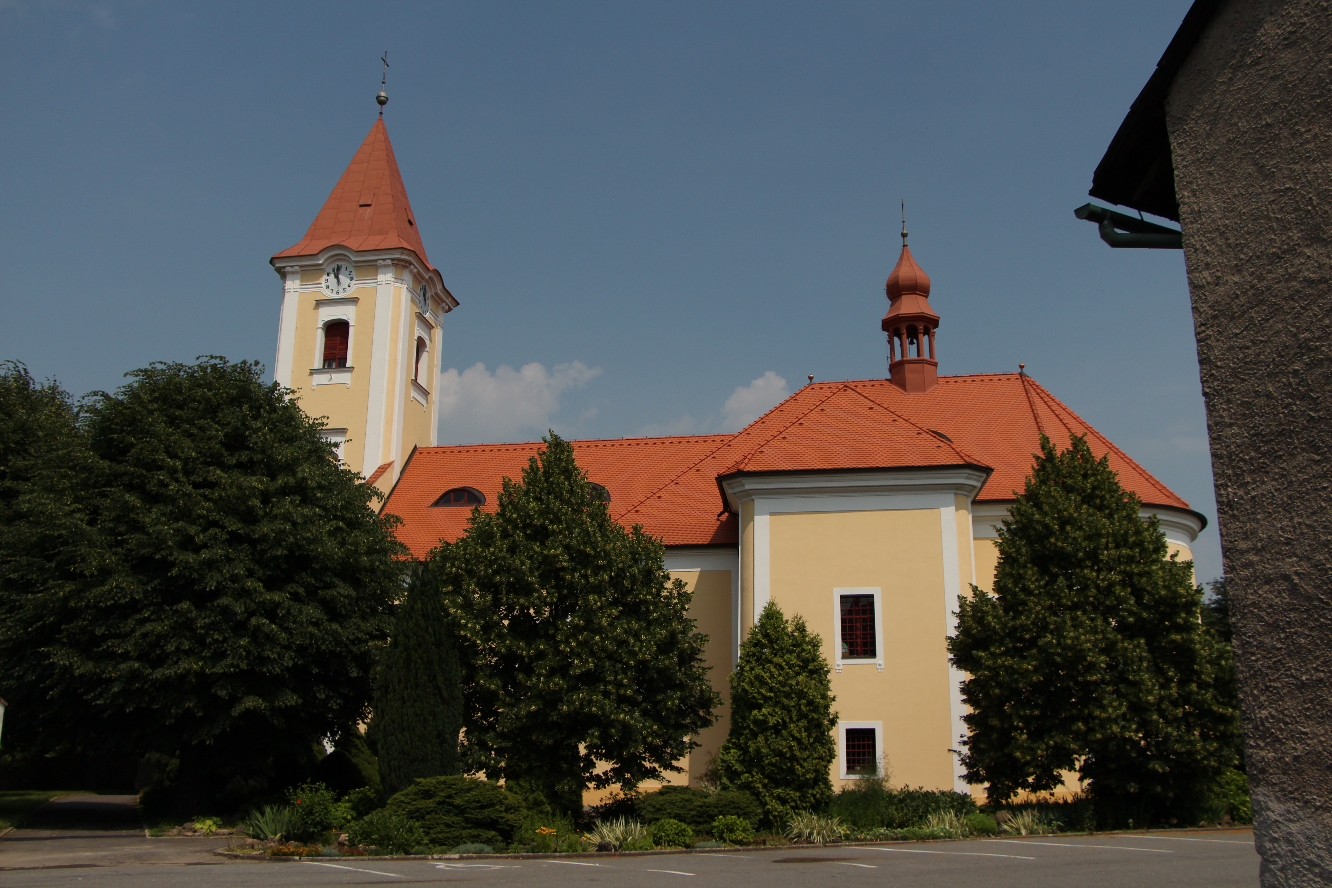 Horní Moštěnice, Přerov District, Czech Republic. Church of the Assumption.